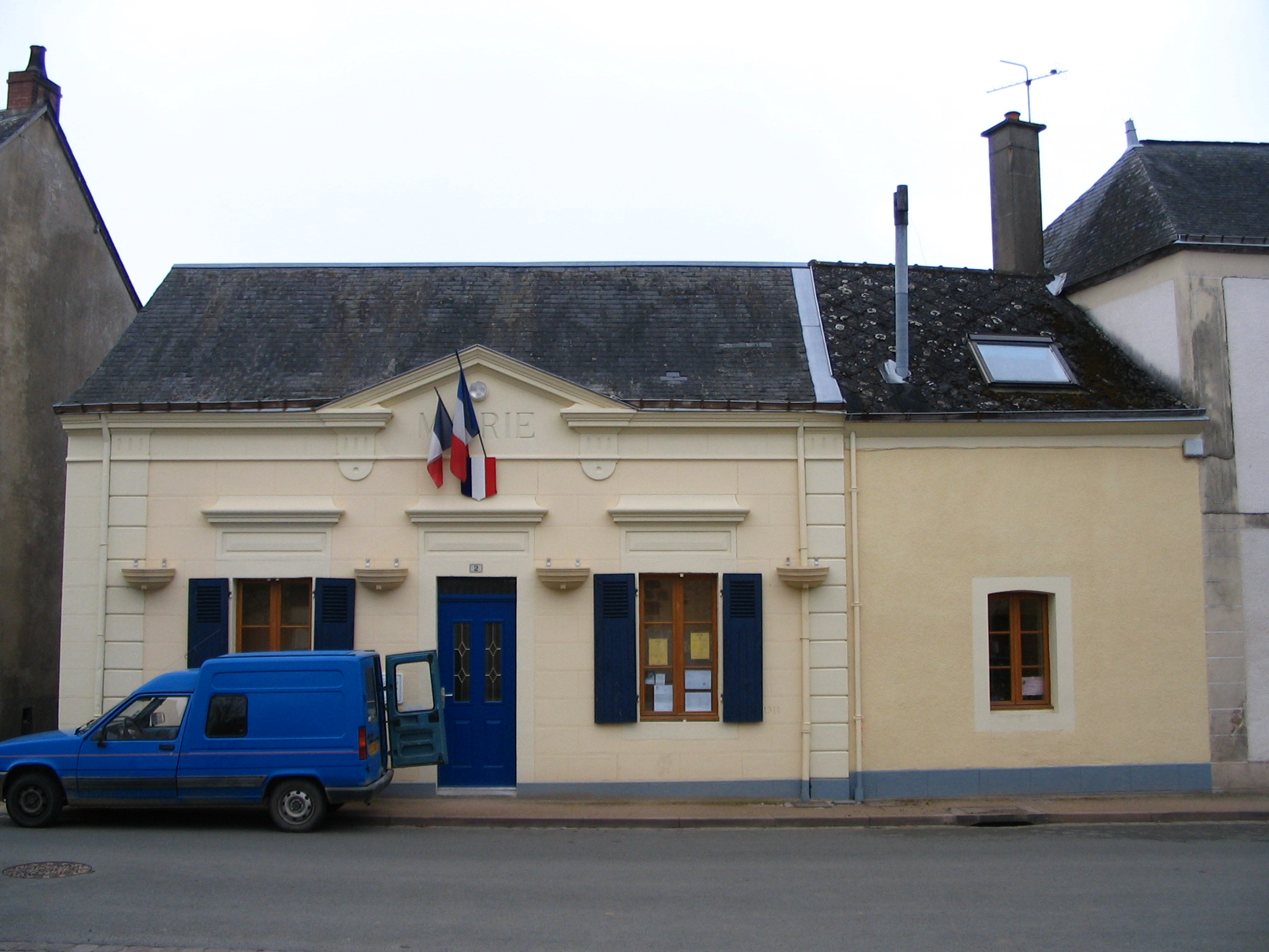 The town hall of Crissé, Sarthe, France.